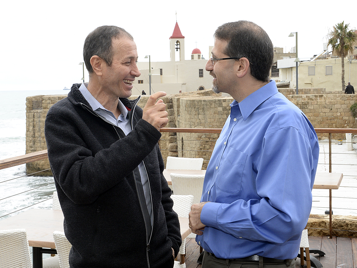 U.S. Ambassador Dan Shapiro Visit to the Western Galilee. Wednesday, January 20, 2016.